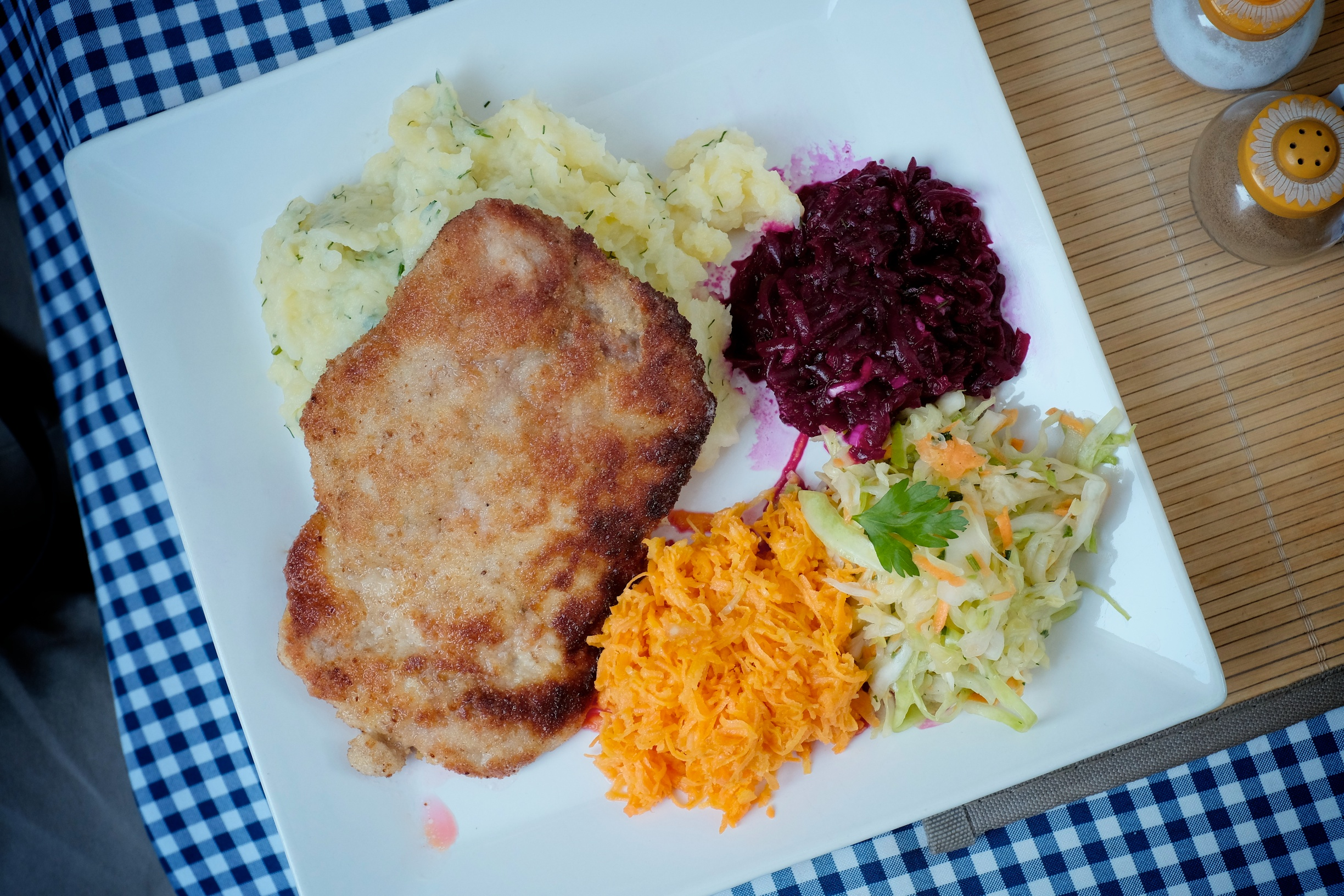 Kotlet schabowy — fried breaded pork made of tenderloin. As served at a restaurant in Poznan, Poland.